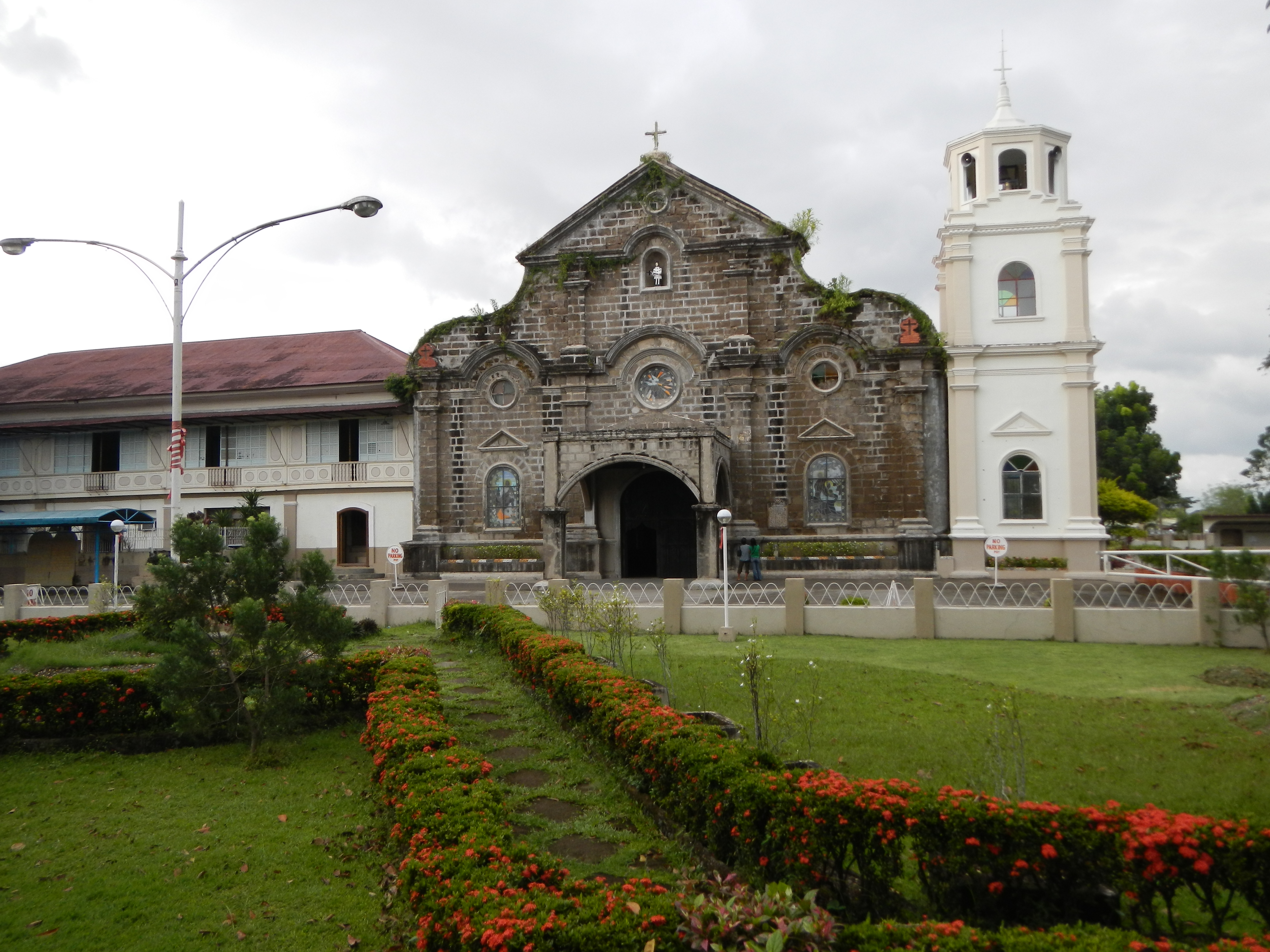 Upload Wizard photos of - Saint John Nepomucene Parish Church of San Juan, Batangas Complex, patio, rectory, office, Vicariate IV: Vicariate of Saint Joseph or San Juan Nepomuceno Parish Church of San Juan, which belongs to the Roman Catholic Archdiocese of Lipa [1] [2] [3] St. Joseph Marello Statue, Monument in the Patio Garden, Joseph Marello Intitute, Poblacion Barangay Hall and Monument beside San Juan West Central School, Muti-Purpose Pavement at Poblacion, San Juan, Batangas, Municipal Library of San Juan Municipal Hall Complex, (Rizal st. cor. General Luna St., Town Proper, downtown, Centro - - San Juan, Batangas[4] (a first class municipality on the Philippines in the province of Batangas; the 2010 census, it has a population of 94,291 people politically subdivided into 42 barangaysWebsite attraction is Acautico Resort in Laiya [5]): the Church facade, the interior, the surroundings, the Patio or Church Plaza, in this Heritage, Landmark, Tourist spot of this Town and the St. Joseph Marello Institute, formerly San Juan Institute - as seen from the NHI Marker I photographed, this Church is a Cultural Heritage Treasure and lankmark tourist spot of the town, one of the oldest in the Philippines.